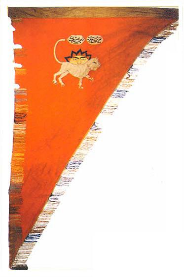 Flag of the Sardar of Erivan khanate